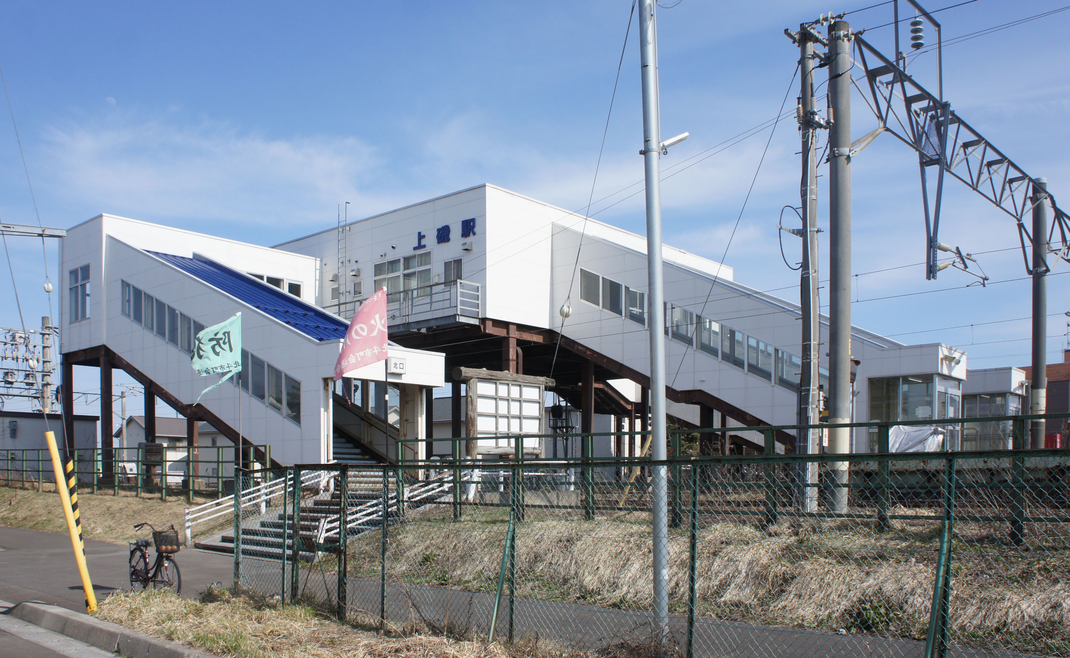 North Exit of South Hokkaido Railway Line Kamiiso Station Sony NEX-3 + E 18-55mm F3.5-5.6 OSS